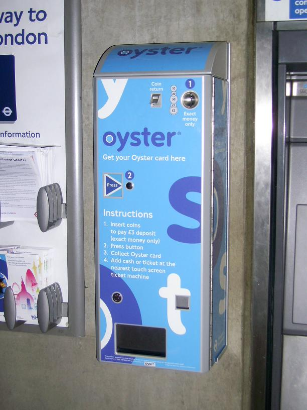 Picture of Oyster card vending machine at London Bridge tube station (ticket hall), taken by Nick Cooper, 19 Jan, 2007.